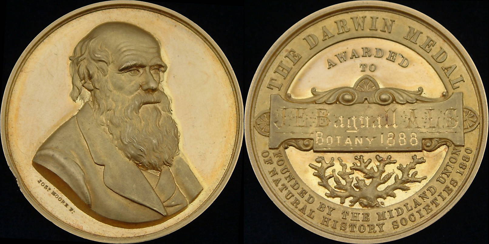 Photograph of both sides of a medal forming part of the Darwin Prize awarded to James E Bagnall. Medal by Joseph E Moore, who died in 1919.